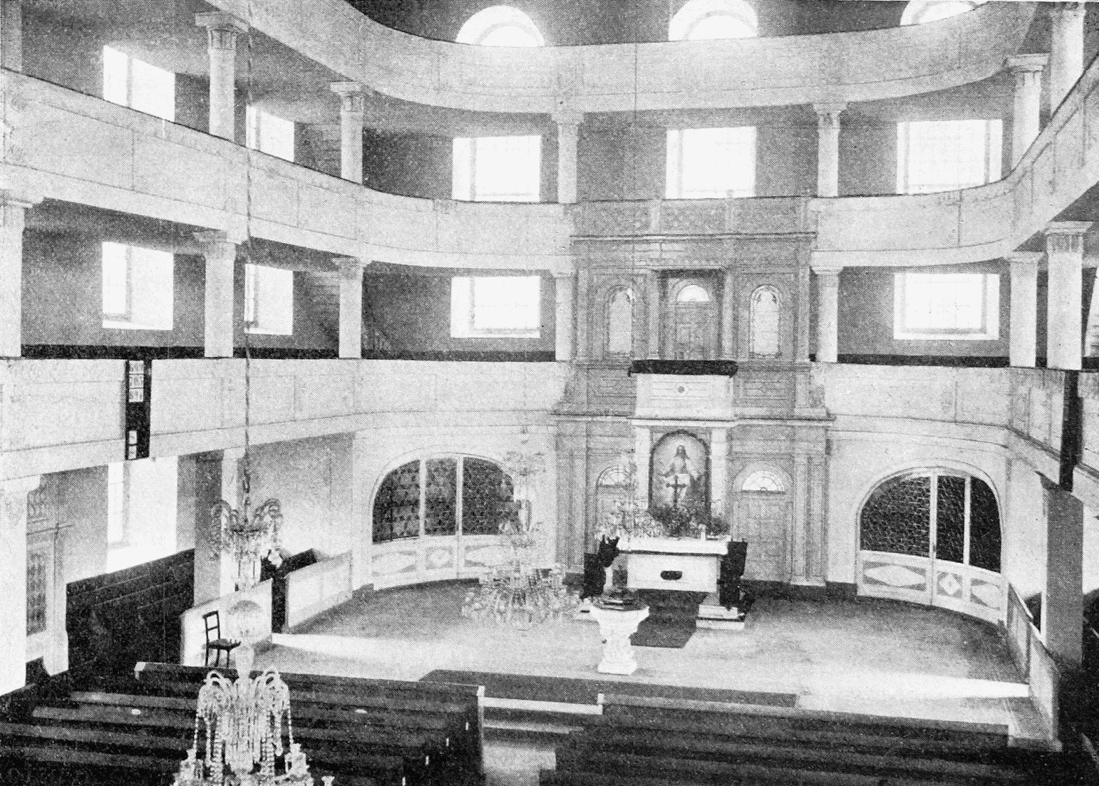 Interior of the church in Oberoderwitz - Oderwitz